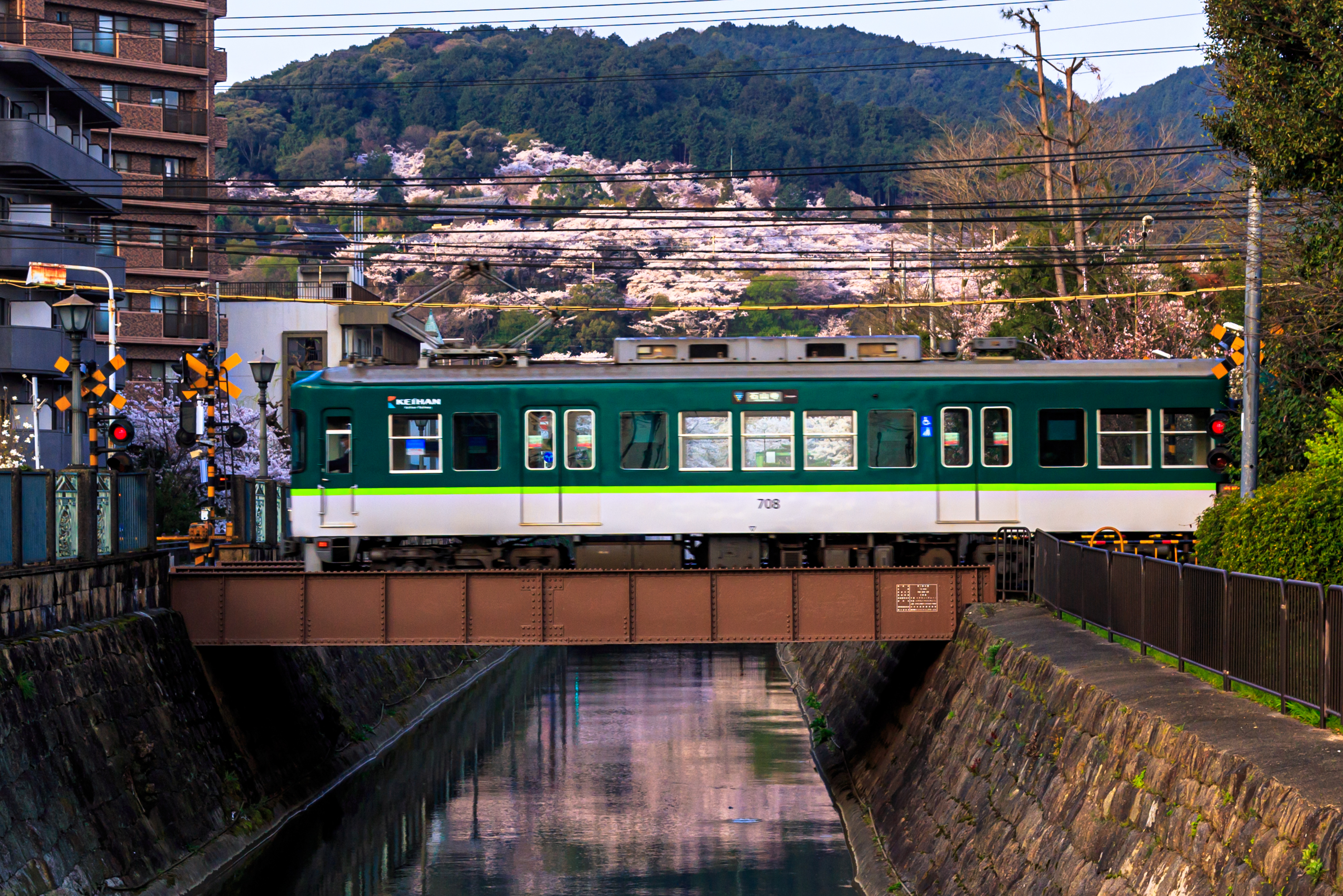 Keihan 700 series train crossing the Biwako Canal near Miidera Station in Otsu, Shiga